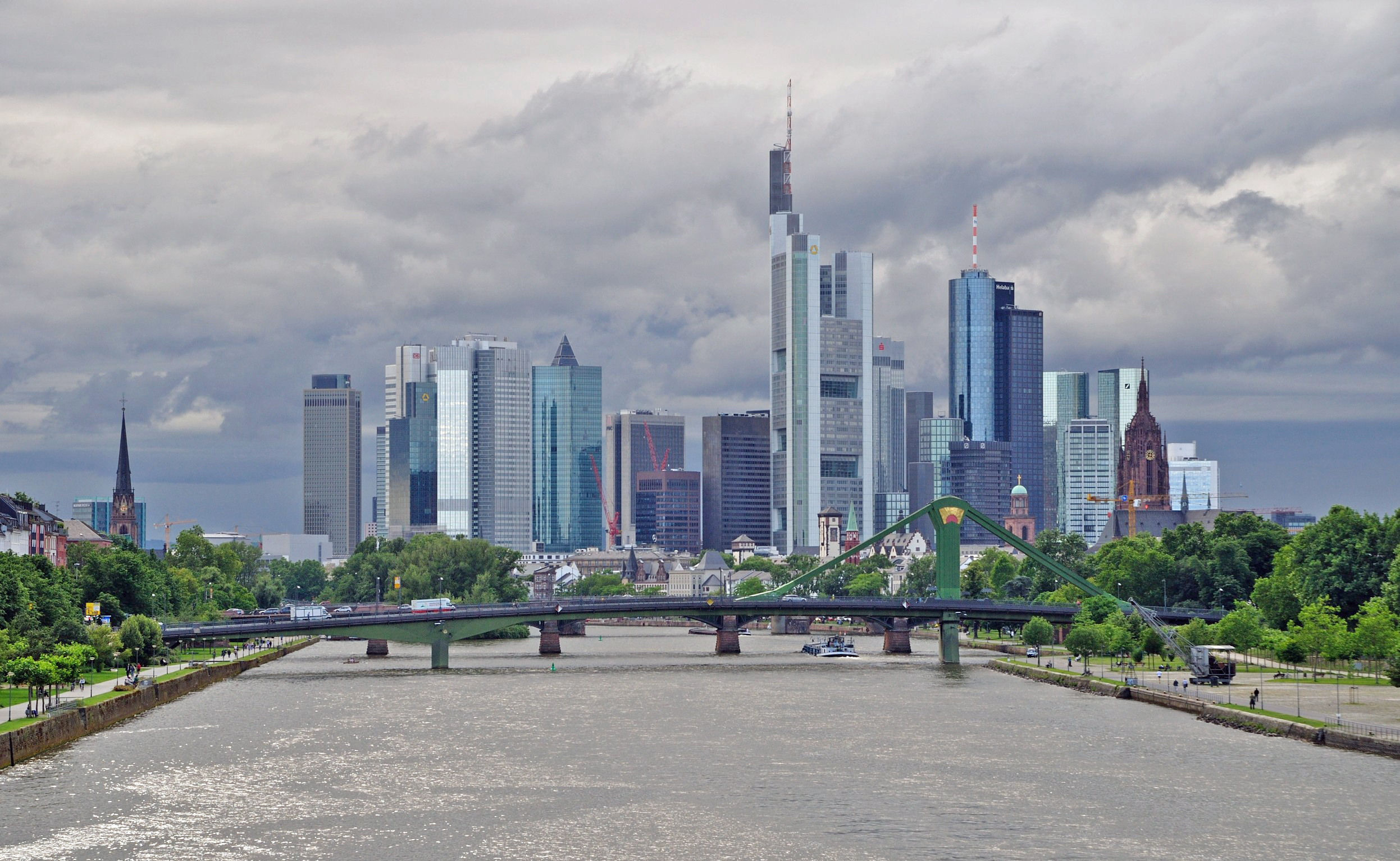 Frankfurt on the Main: View of the city as seen from the Deutschherrnbruecke (Teutonic Knights Bridge)